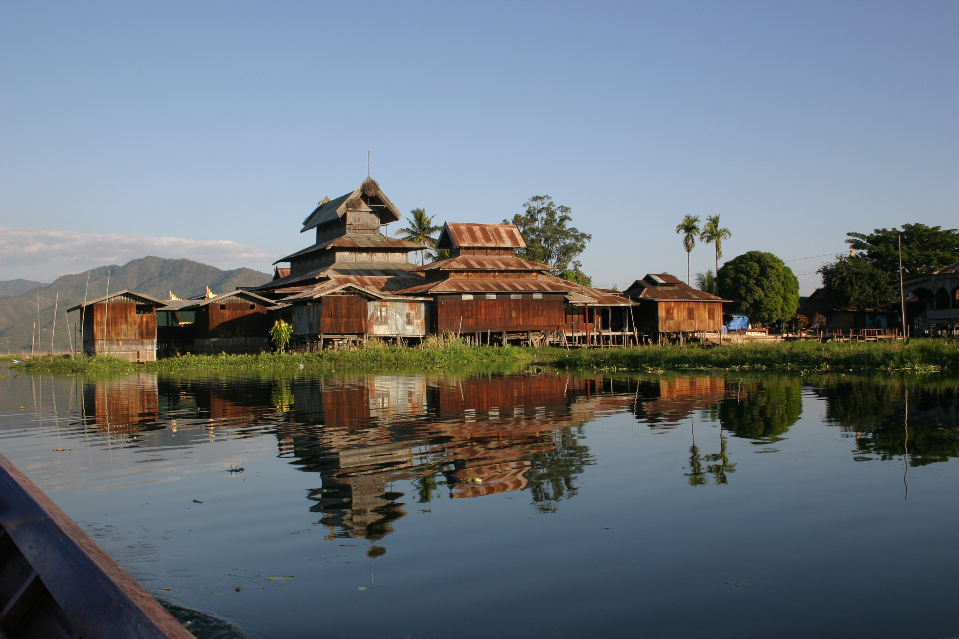 Nga Phe Kyaung monastery at Inle Lake in Myanmar.